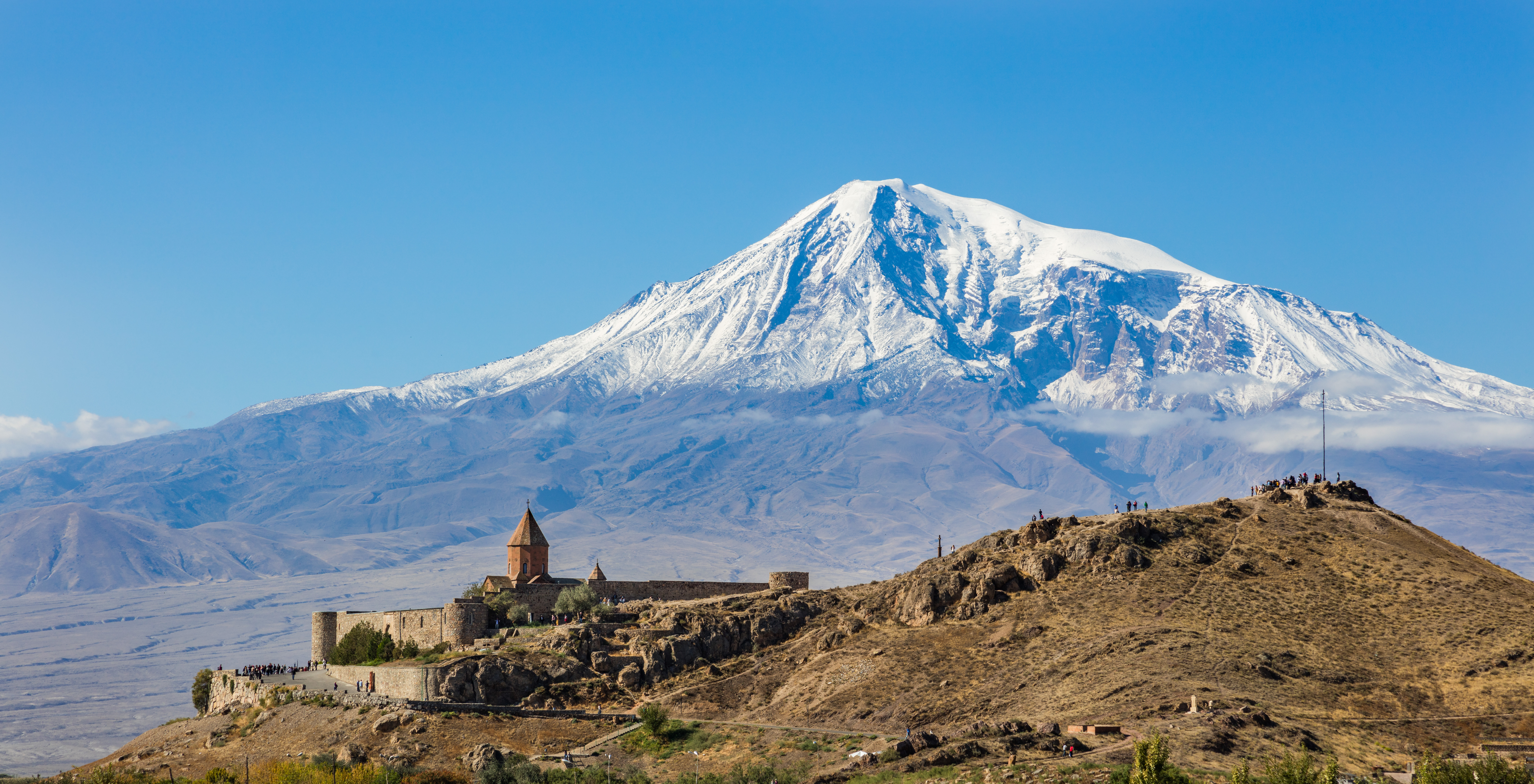 View of Khor Virap, an Armenian monastery and one of the most visited pilgrimage sites in Armenia located in the Ararat plain with the Mount Ararat in the background. Khor Virap's notability as a monastery and pilgrimage site is due to the fact that Gregory the Illuminator, religious leader who converted Armenia from paganism to Christianity in 301, becoming the first nation to adopt Christianity as its official religion, was initially imprisoned here for 14 years by King Tiridates III of Armenia. A chapel was initially built in 642 by Nerses III the Builder as a mark of veneration to Saint Gregory. Over the centuries, it was repeatedly rebuilt and the current appearance dates from 1662.